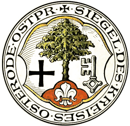 Coat of Arms of former Osterode County